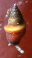 A tiny Eastern Pacific sea snail Alia carinata (aka Mitrella carinata), the Carinated Dove Shell, on the sea grape Botryocladia pseudodichotoma, a red alga